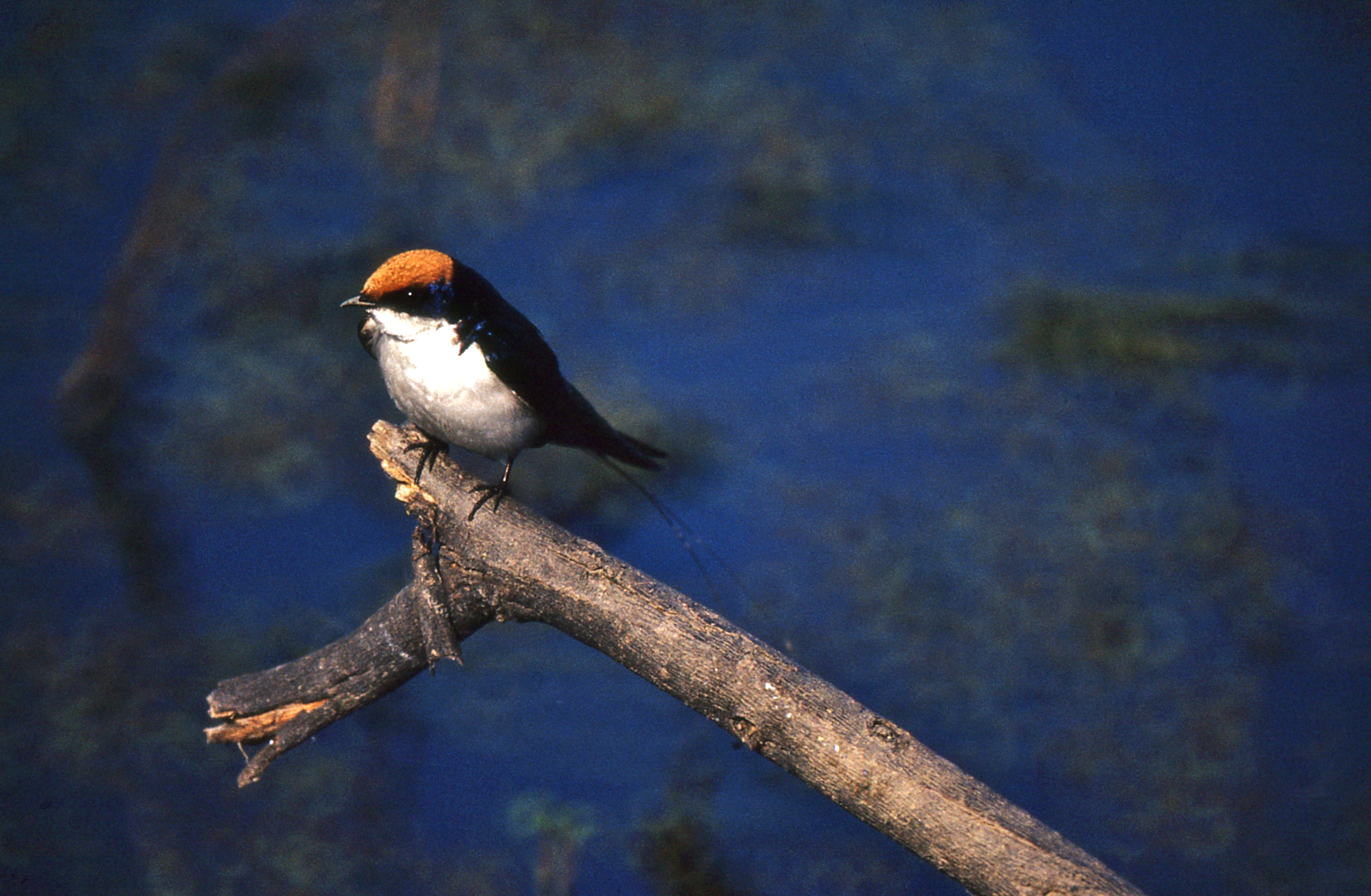 Keoladeo Ghana NP, Bharatpur, Rajasthan, INDIA Scanned Slide from February 1994